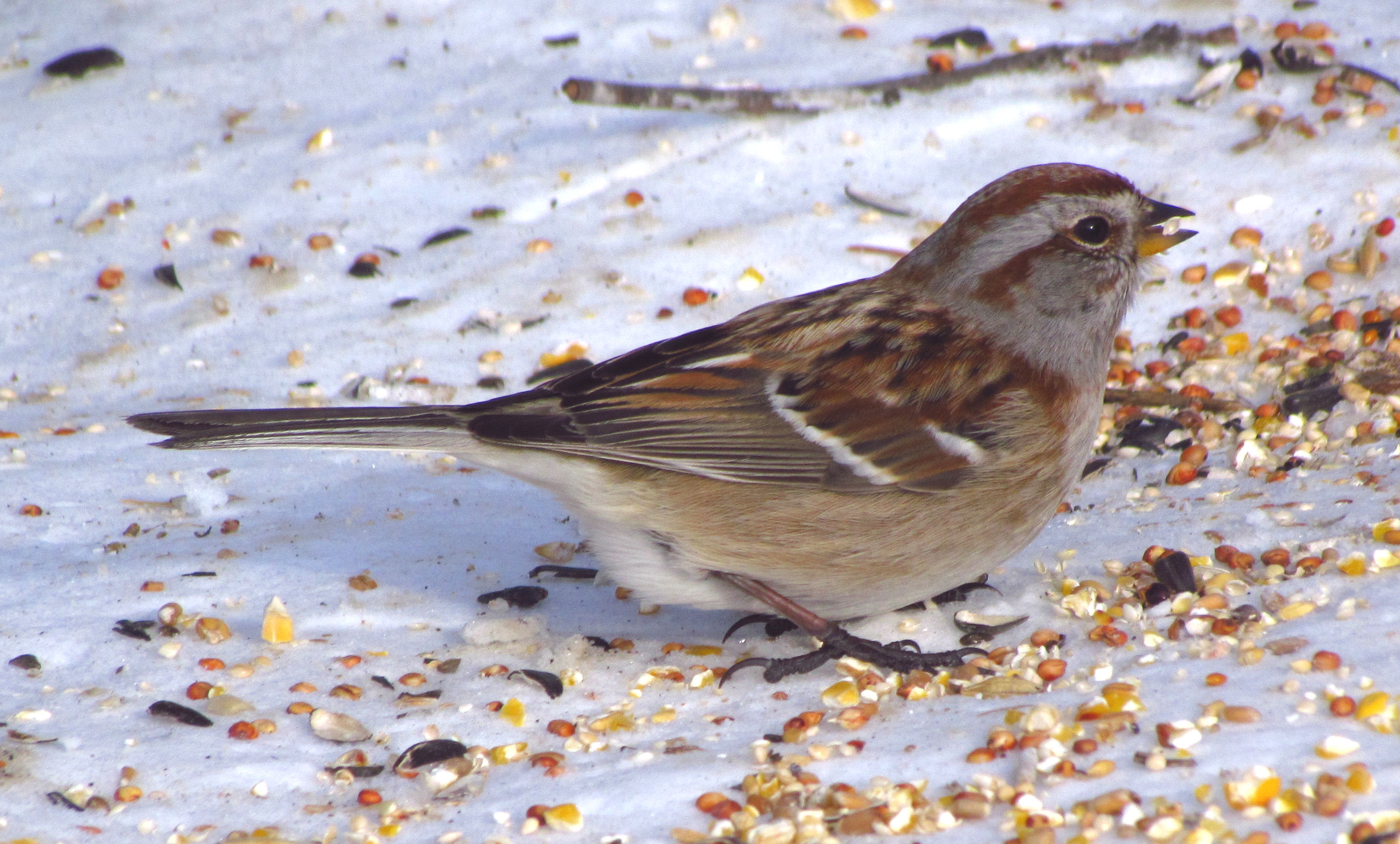 American Tree Sparrow (Spizella arborea), Shirleys Bay, Ottawa, Ontario, Canada